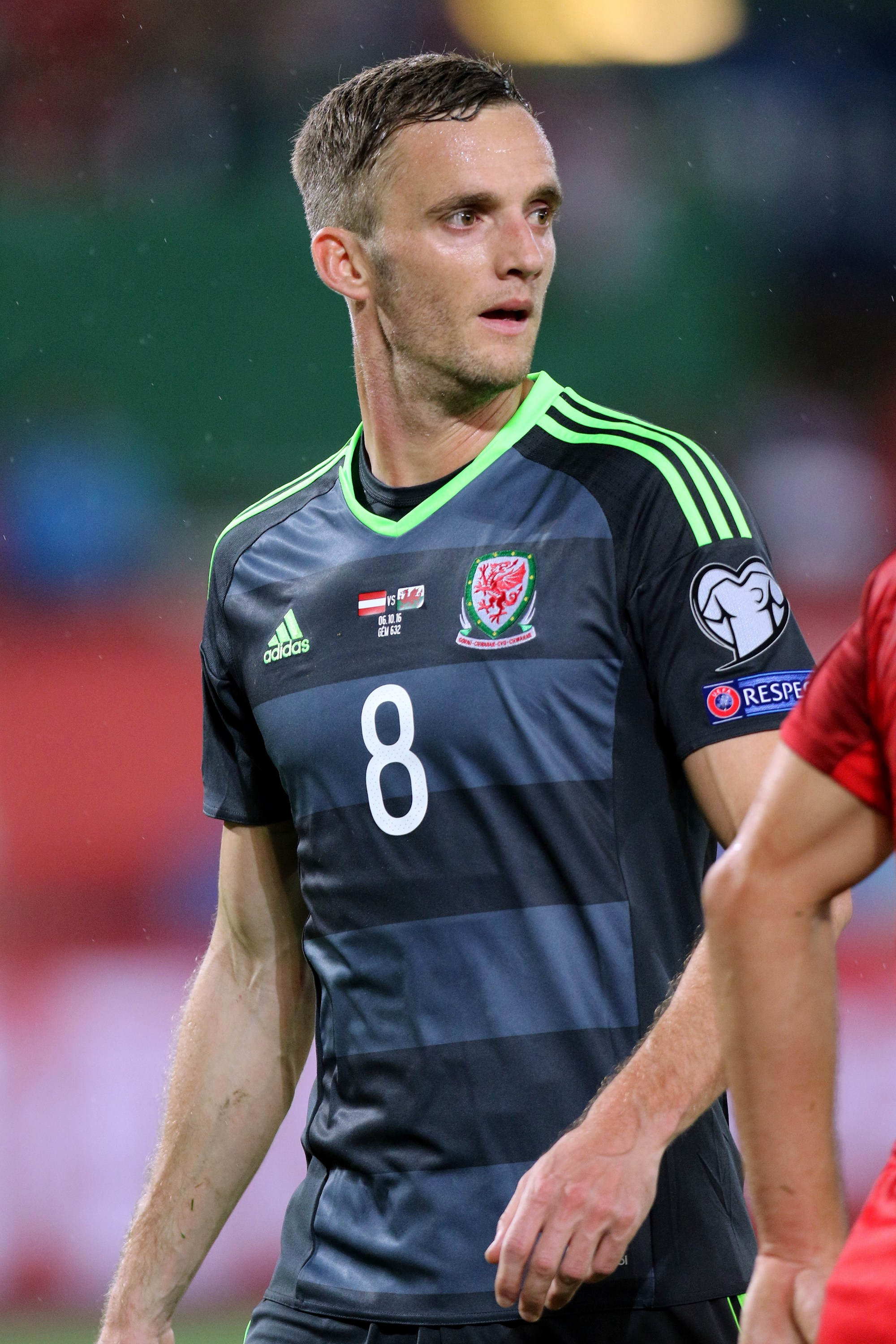 2018 FIFA World Cup qualification – UEFA Group D) – Austria (red shirts) vs. Wales (white shirts) 2-2 (1-2) – 2016-10-06 in Vienna, Ernst-Happel-Stadion – The photo shows Andy King.